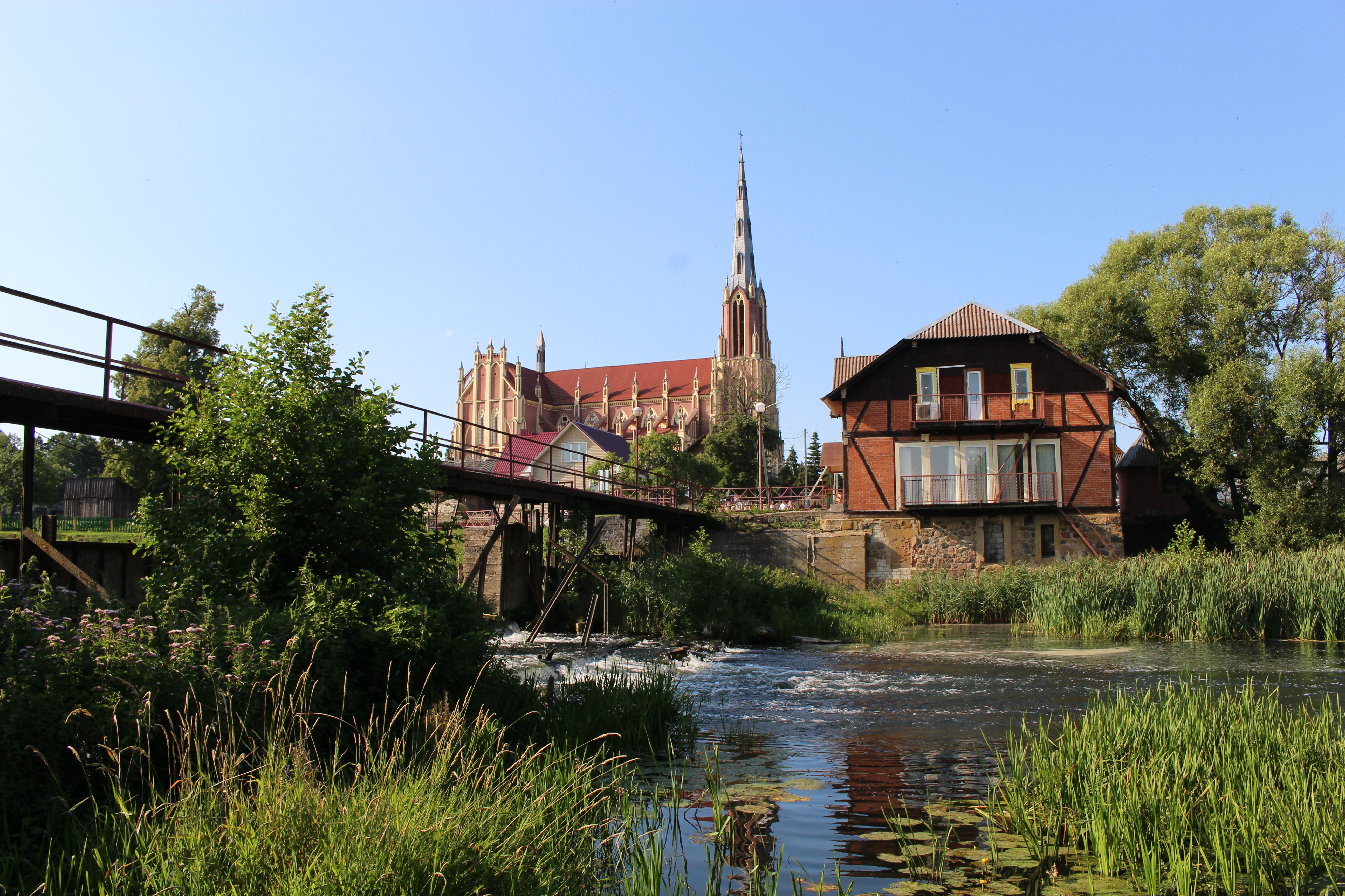 The bridge crosses Loša (a tributary of Ašmianka river) near Hierviaty